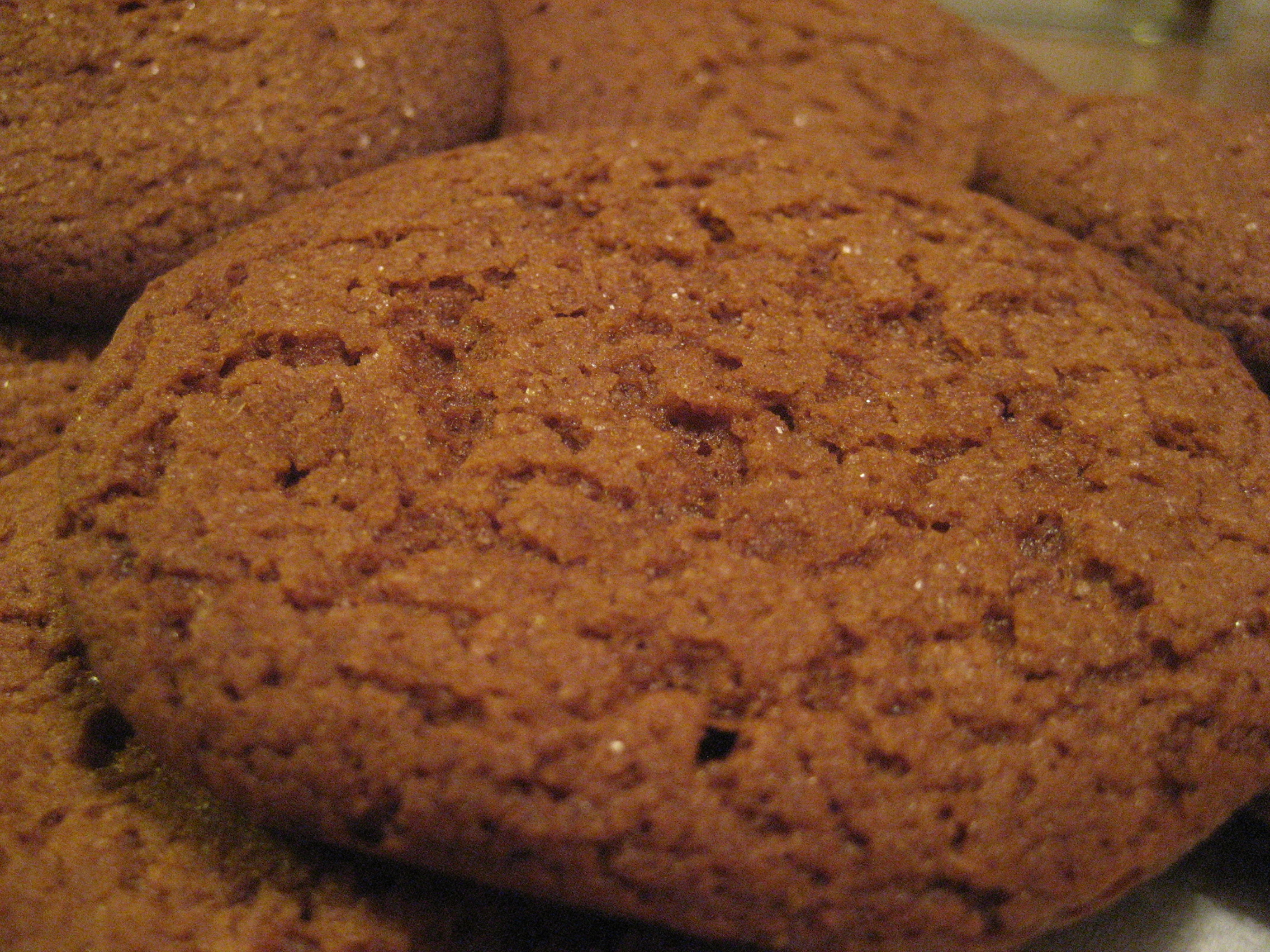 A close up of a gingersnap cookie